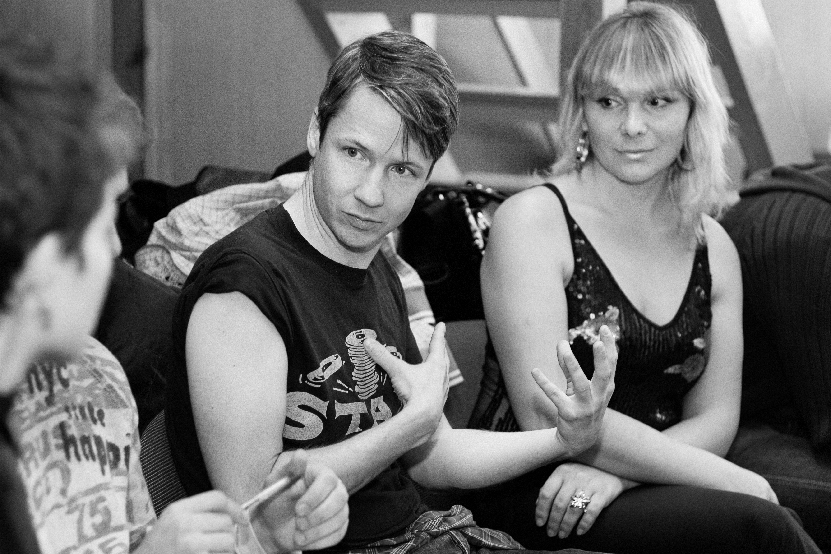 John Cameron Mitchell. International Gay and Lesbian Film Festival «Side by Side»